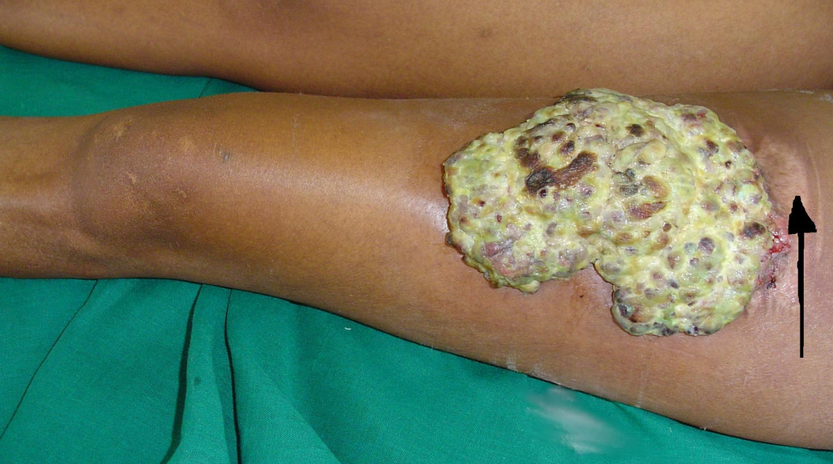 Giant pyogenic granuloma, left thigh. Note (arrow) normally healed skin graft donor site on the proximal edge of the mass.